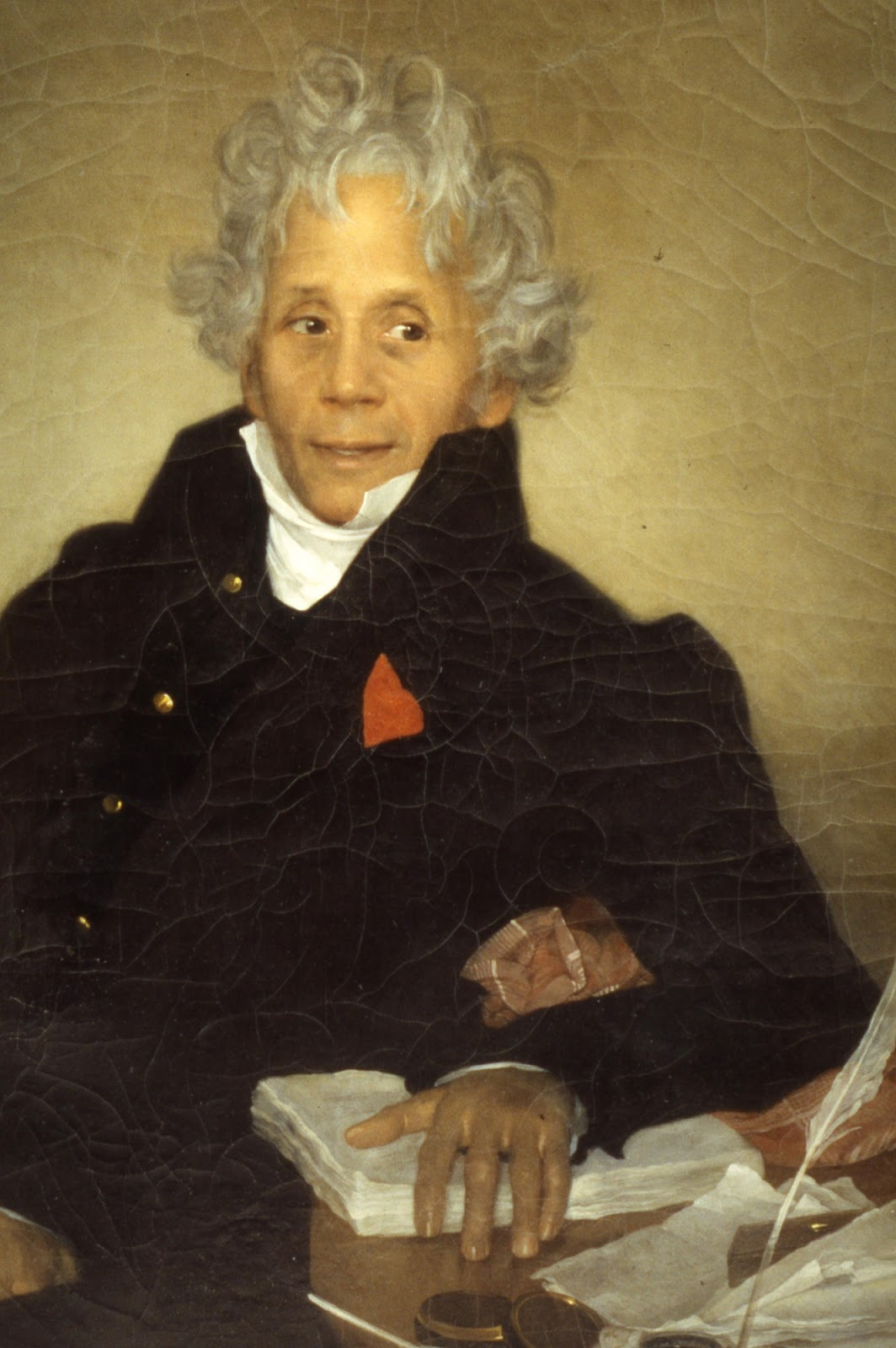 François Fournier de Pescay is the first person of color to have practiced medicine and surgery in Europe.